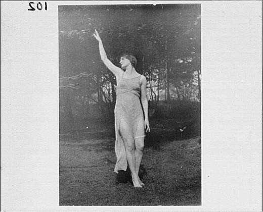 Title: Elizabeth Duncan dancer Abstract/medium: Genthe, Arnold, 1869-1942. Physical description: 1 slide